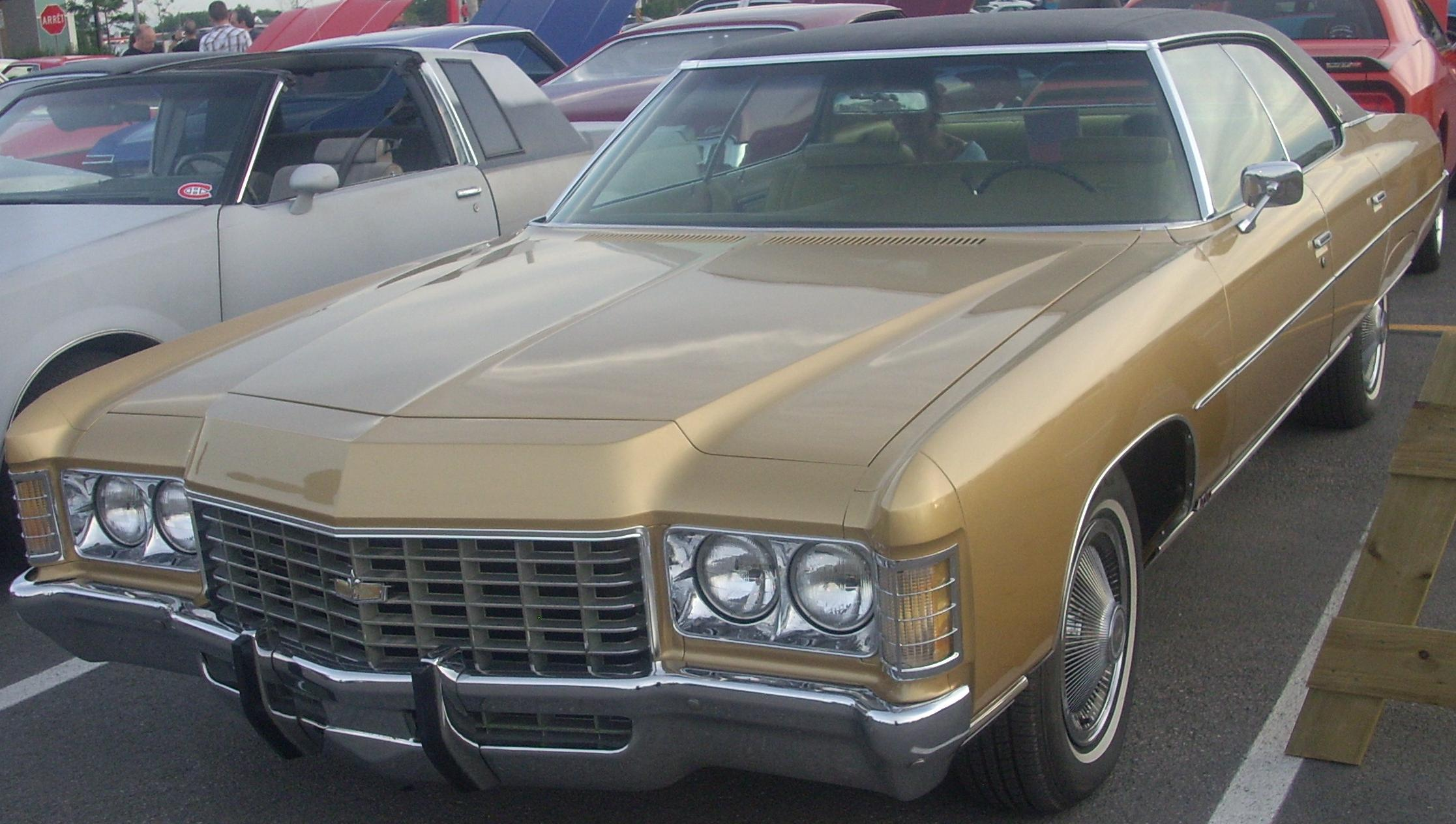 1971 Chevrolet Caprice photographed in Laval, Quebec, Canada at Centropolis Laval.